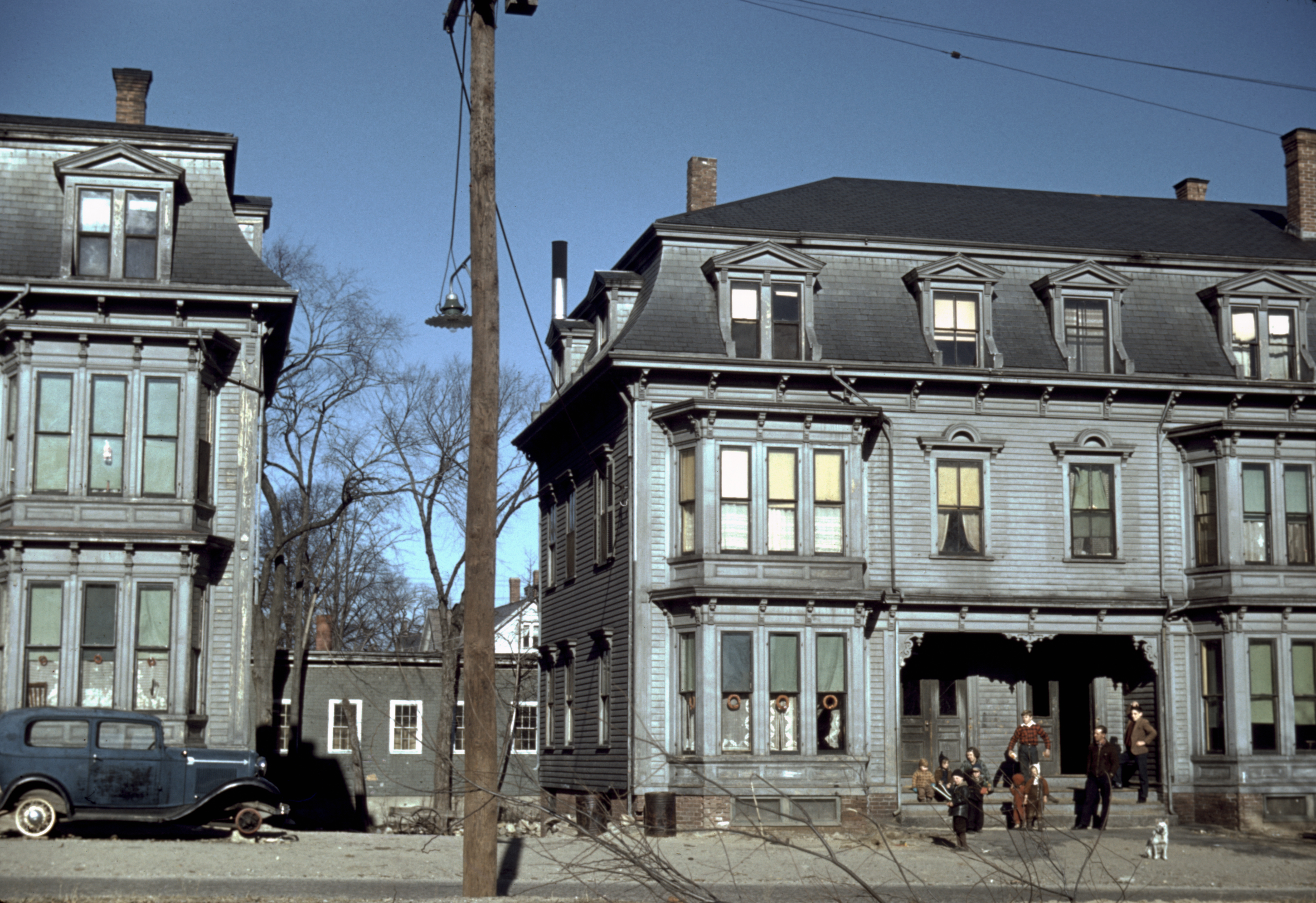 Delano, Jack,, 1914-, photographer. Children in the tenement district, Brockton, Mass. 1940 Dec. 1 slide : color. Notes: Title from FSA or OWI agency caption. Transfer from U.S. Office of War Information, 1944. Subjects: Tenement houses Children United States--Massachusetts--Brockton Format: Slides--Color Repository: Library of Congress, Prints and Photographs Division, Washington, D.C. 20540 USA, Part Of: Farm Security Administration - Office of War Information Collection 11671-1 (DLC) 93845501 General information about the FSA/OWI Color Photographs is available at Persistent URL: Call Number: LC-USF35-6